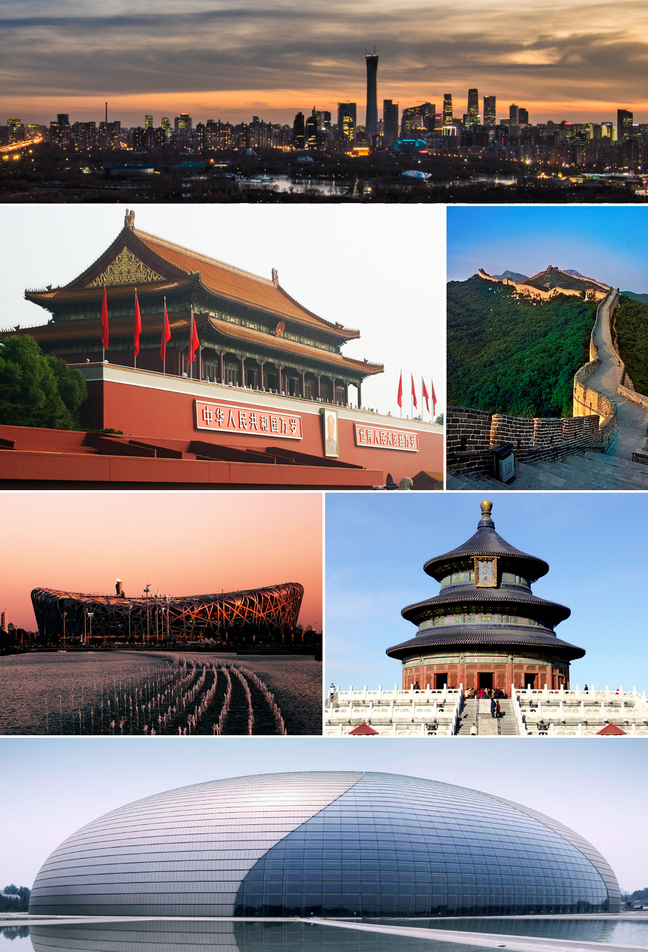 Montage of various Beijing images.